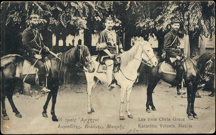 Photos of greek revolutionaries